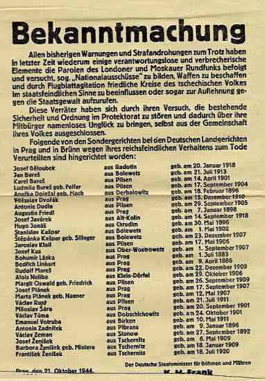 German notice announcing names of executed Czechs (1944)